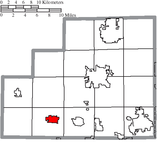 Map of the municipal and township boundaries of Medina County, Ohio, United States, as of the 2000 census, with the location of the village of Lodi highlighted. Township borders are shown only in unincorporated areas in order to differentiate incorporated and unincorporated areas more clearly.